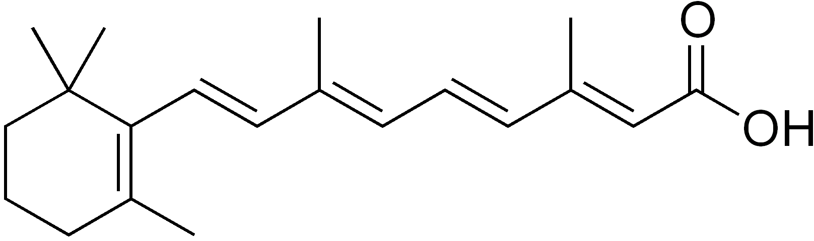 chemical structure of retinoic acid